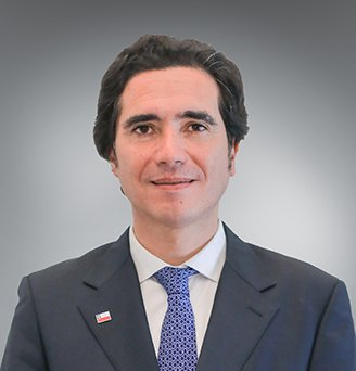 Fotografia oficial de Ignacio Briones como Ministro